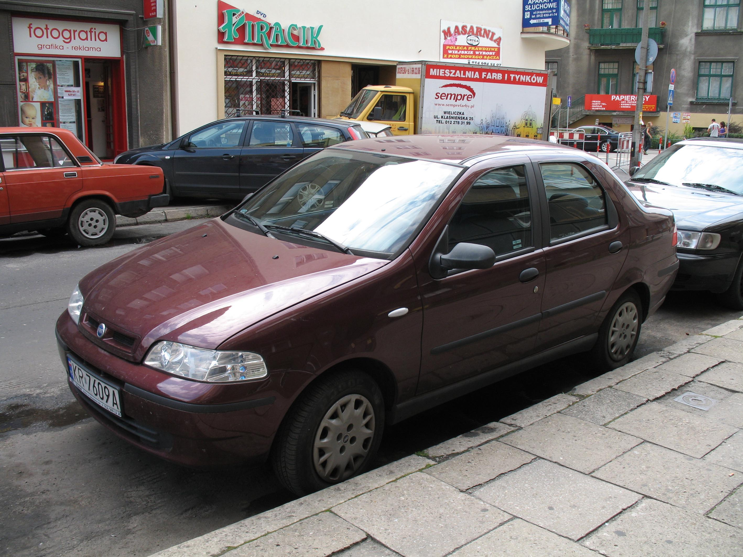 Fiat Albea Mk1 car in Kraków, Poland.